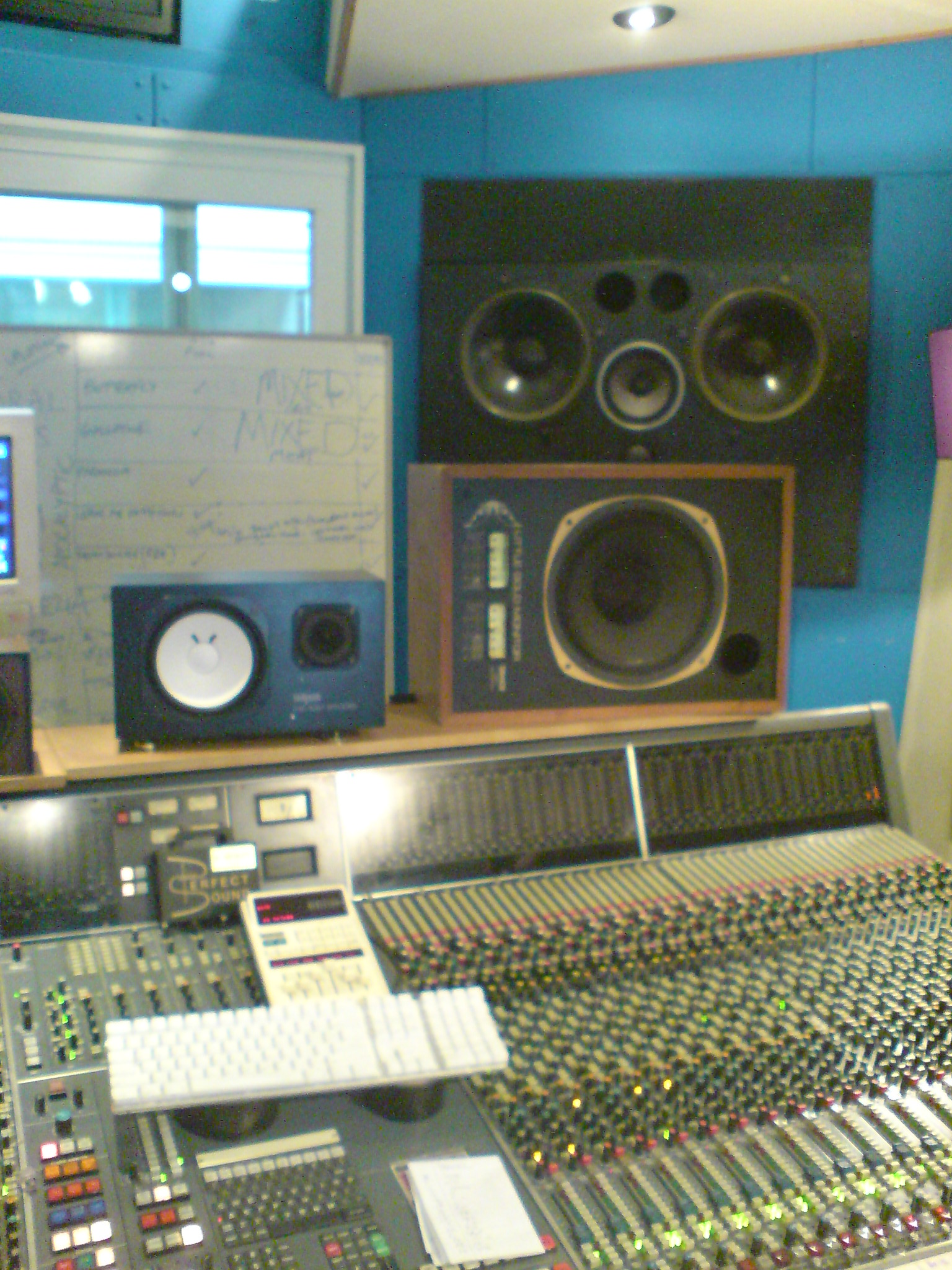 Munro M4 custom 4-way soft dome monitor (designed by Andy Munro) the monitors in the main mix room. Ben the producer was really friendly and gave me a lot of tips for mixing my own music. Cheers Ben!